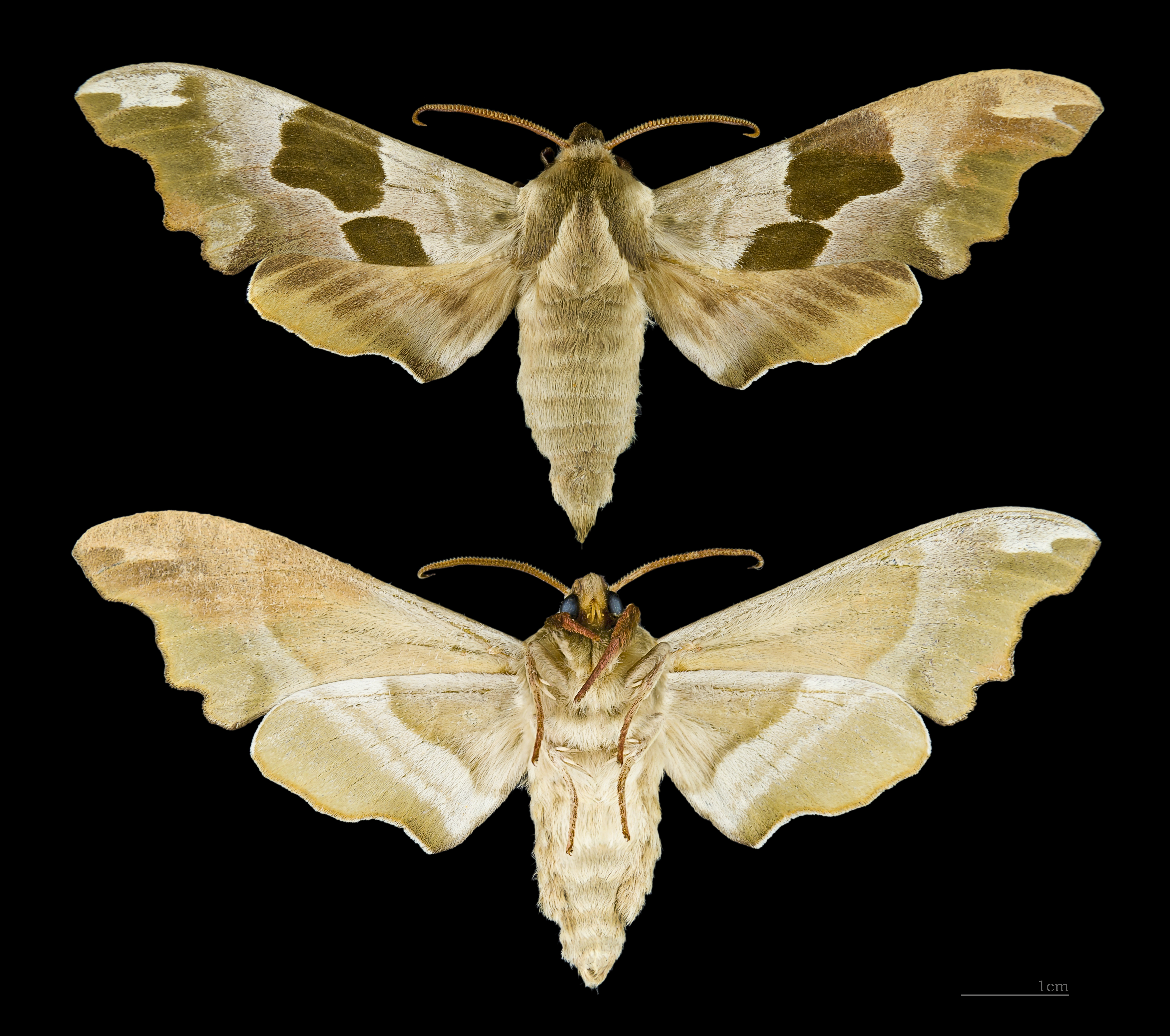 Lime Hawk-moth - Two views of same specimen